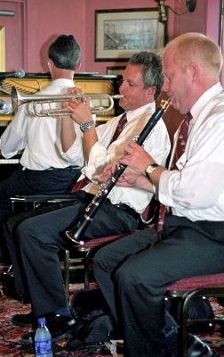 "Steamboat Natchez Jazz Band", New Orleans. Musicians visible are Steve Pistorias (seen from back), piano; Duke Heitger, trumpet and leader; Tim Laughlin, clarinet.